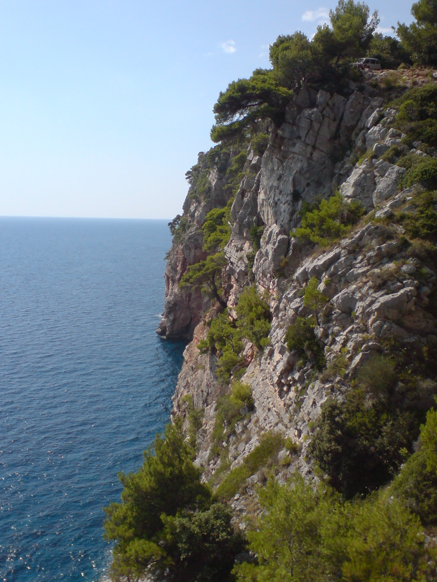 Cliffs above the Pasjača beach in Konavle, Croatia